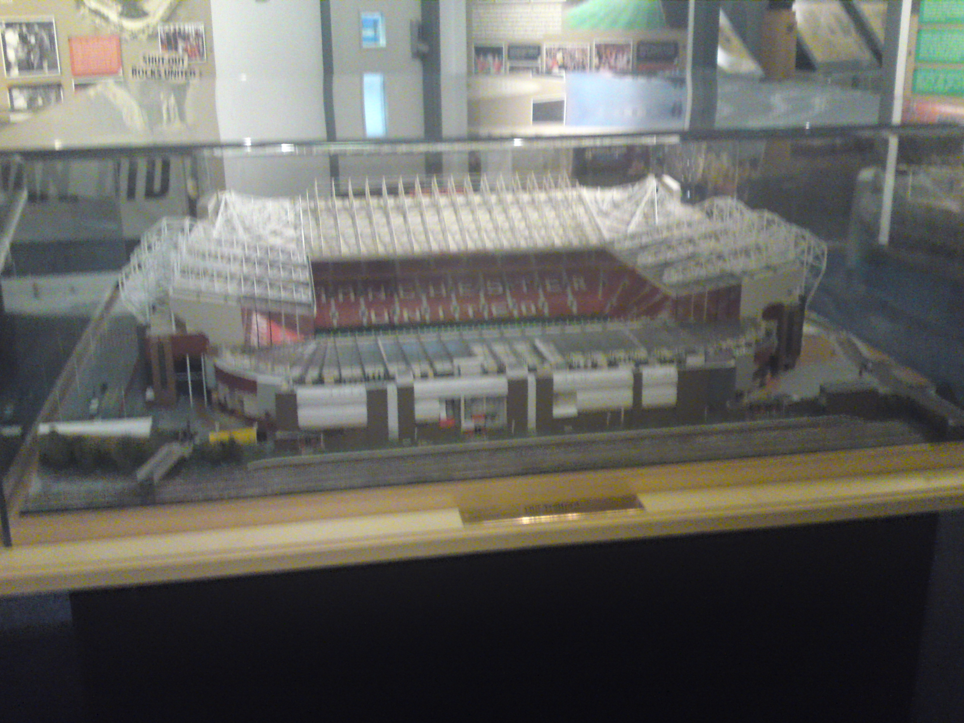 A photograph of Peter Oldfield-Edwards' 1:220 scale model of Old Trafford on display in the Manchester United museum